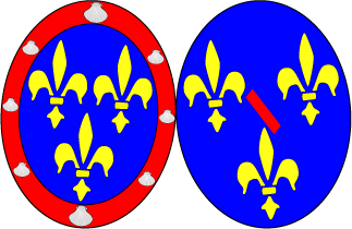 BlasonAllianceParmeBusset